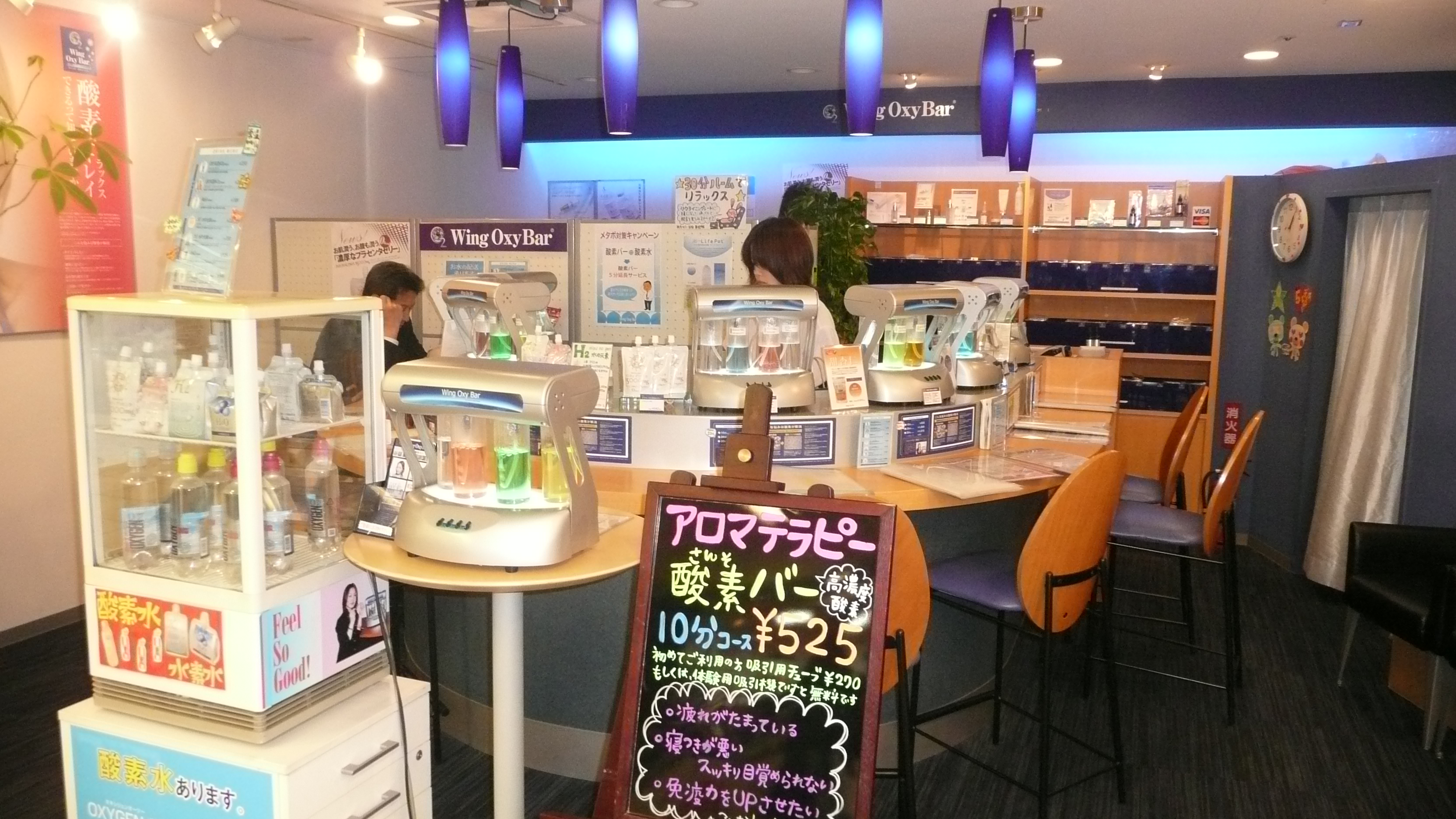 Oxygen Bar in Nagoya, Japan